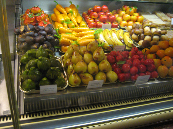 Fruit- and vegetable-shaped marzipan.